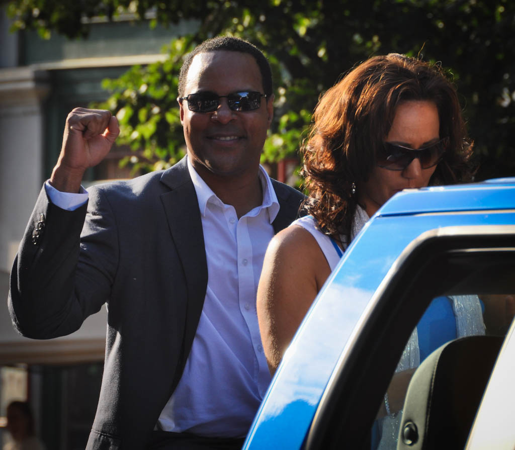 Barry Larkin at the 2013 Hall of Fame Parade